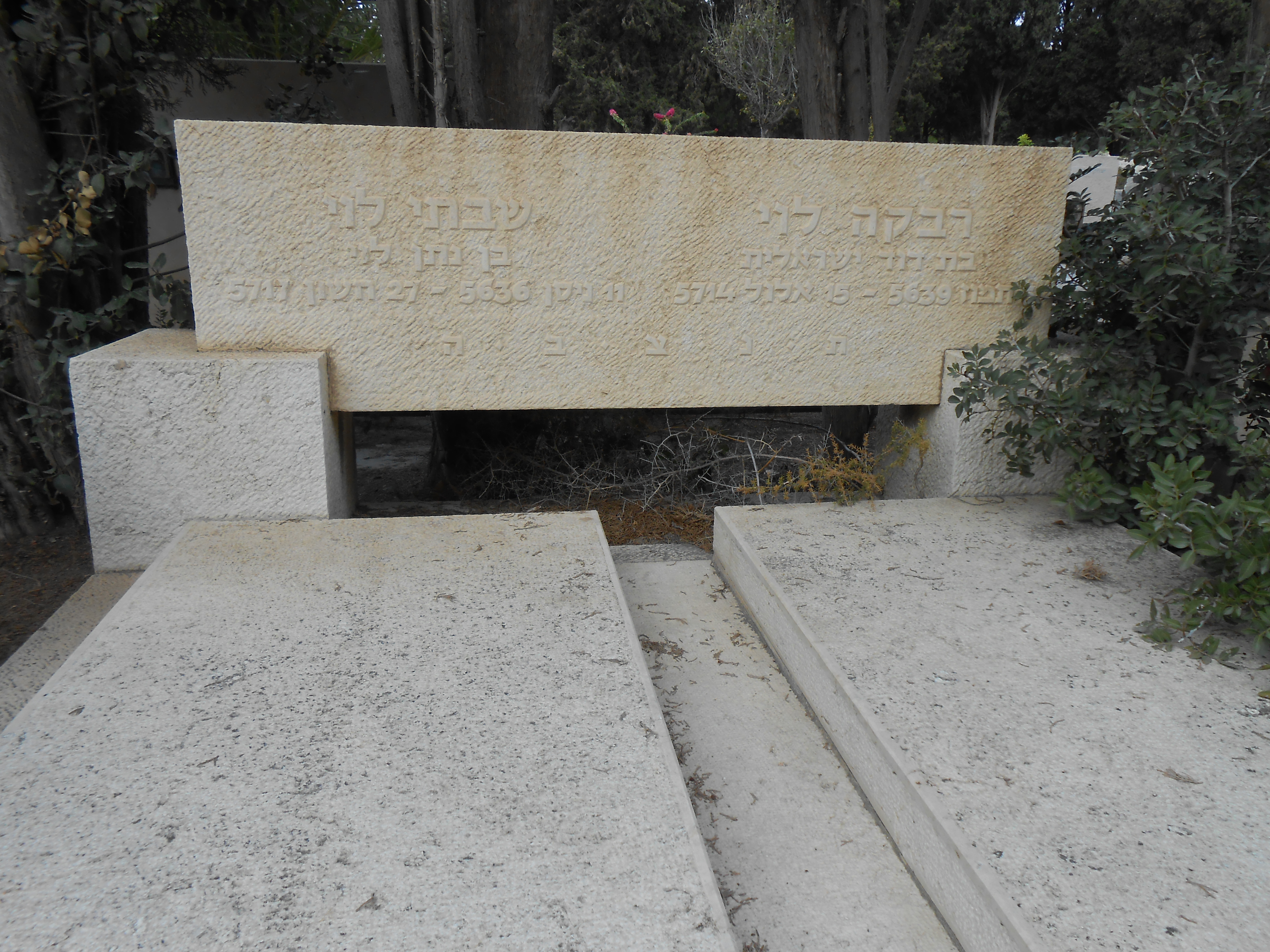 Shabtai and Rivka Levy grave. The grave is located at the Carmel beach Jewish cemetery. Haifa, Israel.